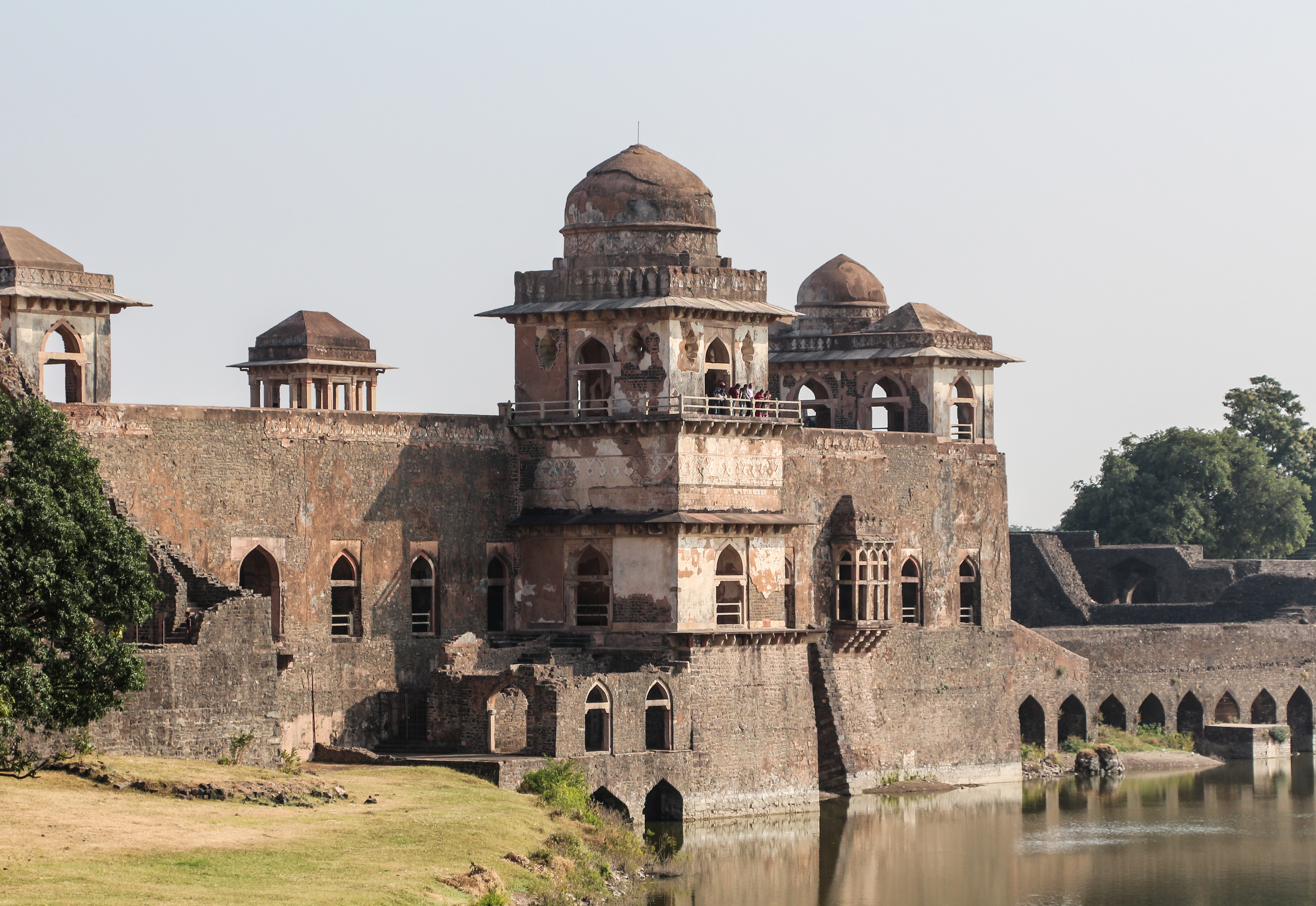 The Jahaz Mahal seen from the Champa Baodi, Mandu, India